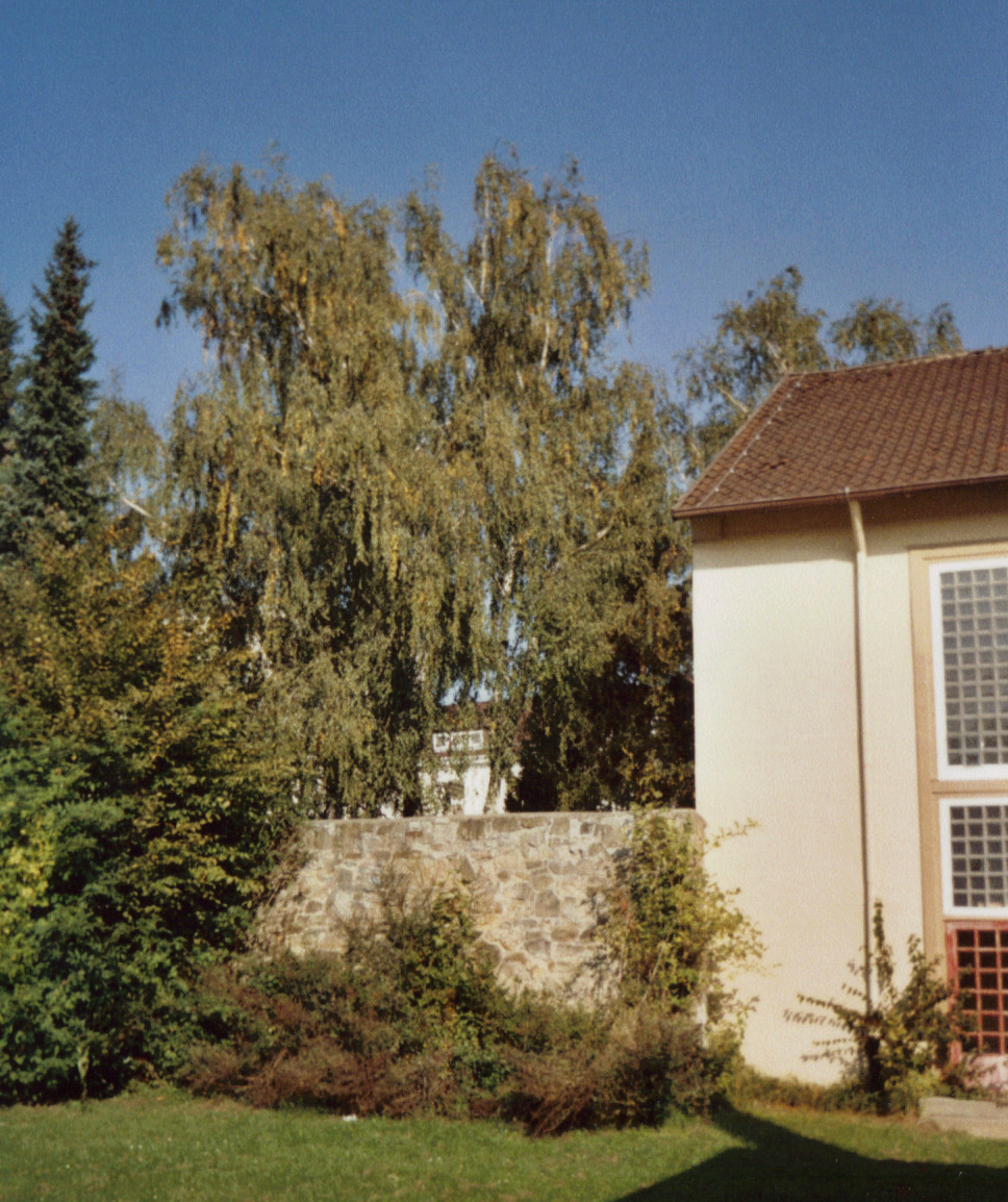 A part of the medieval city wall (14th century) at the district of Neustadt, Hildesheim.